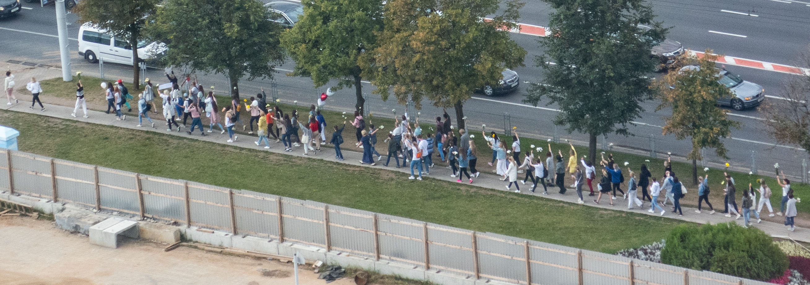 Local line of solidarity during mass protests. Minsk, Belarus